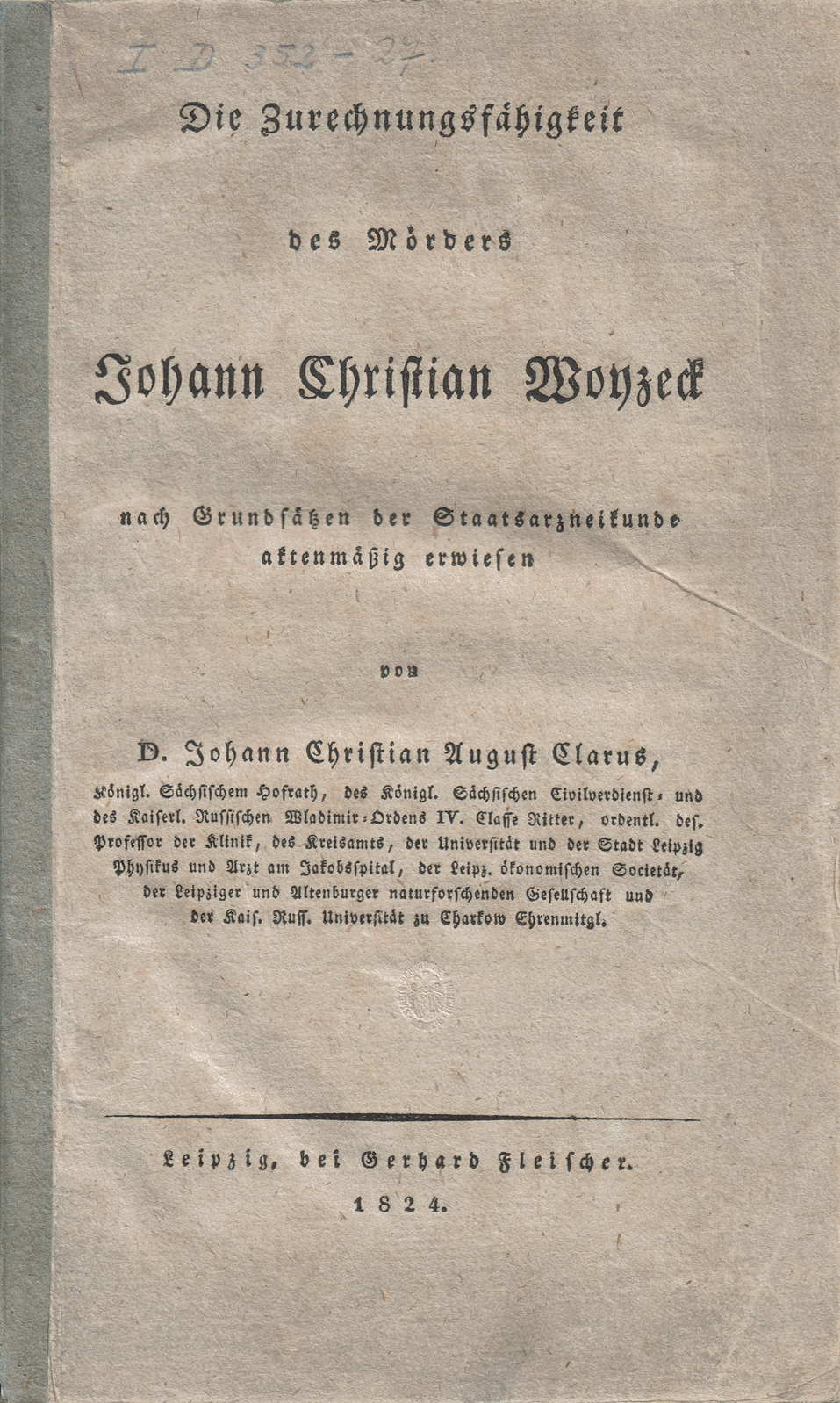 Johann Christian August Clarus: On the sanity of murderer Johann Christian Woyzeck. Fleischer, Leipzig 1824